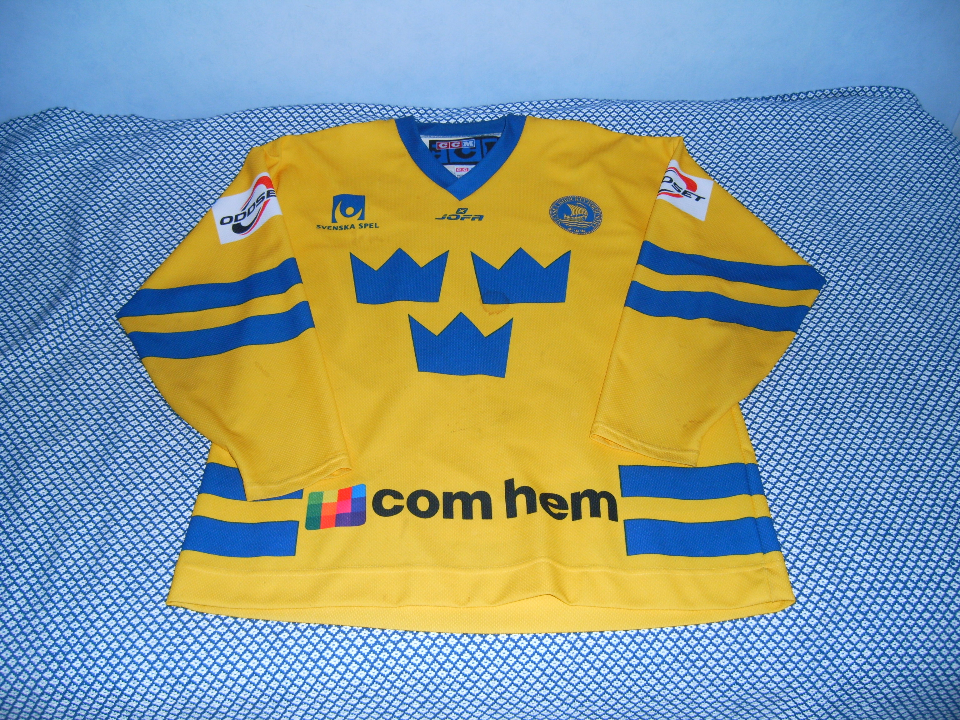 Team Sweden's men national ice hockey team's jersey